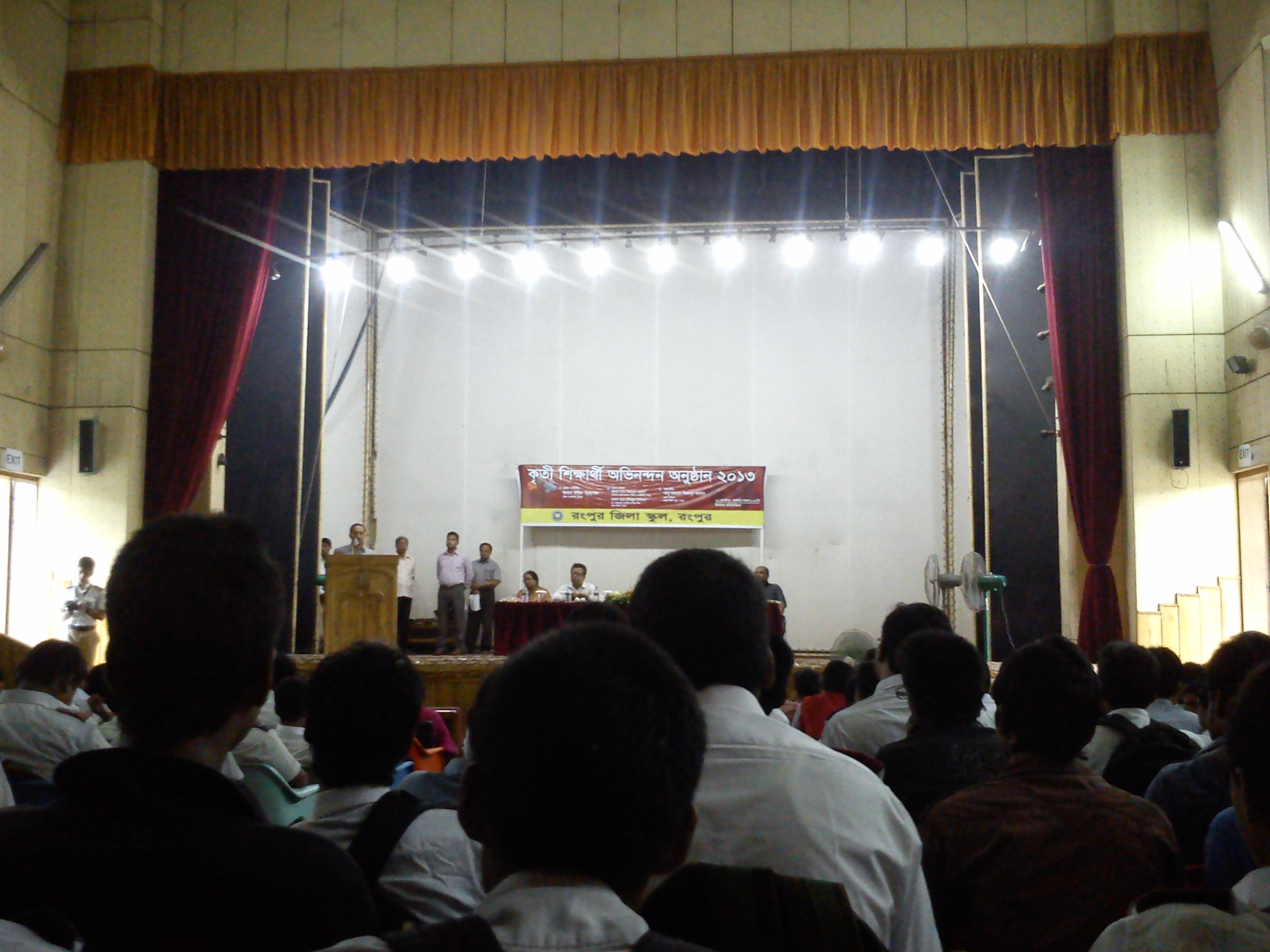 The awesome auditorium of Rangpur Zilla School